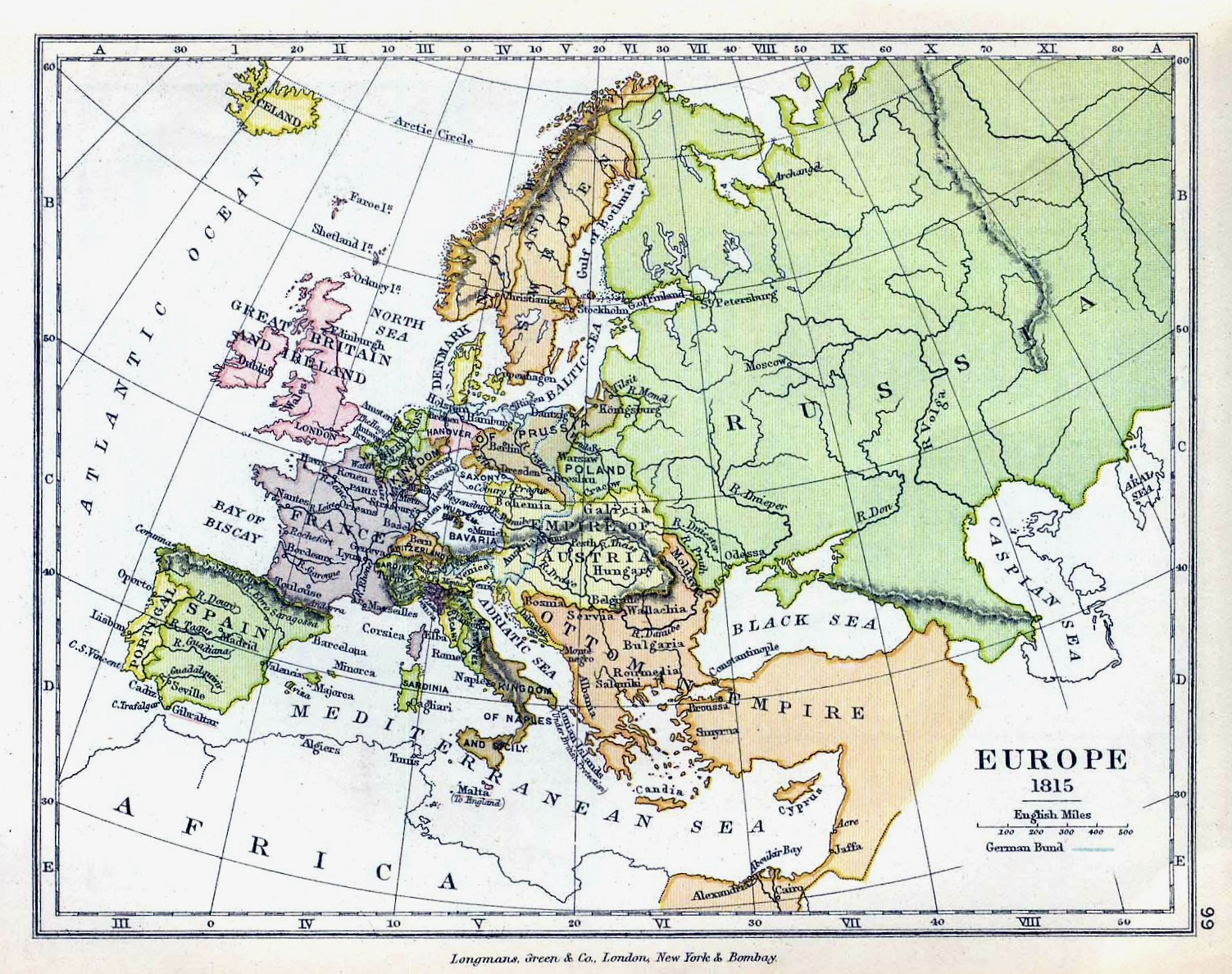 Map of Western Europe in 1815.